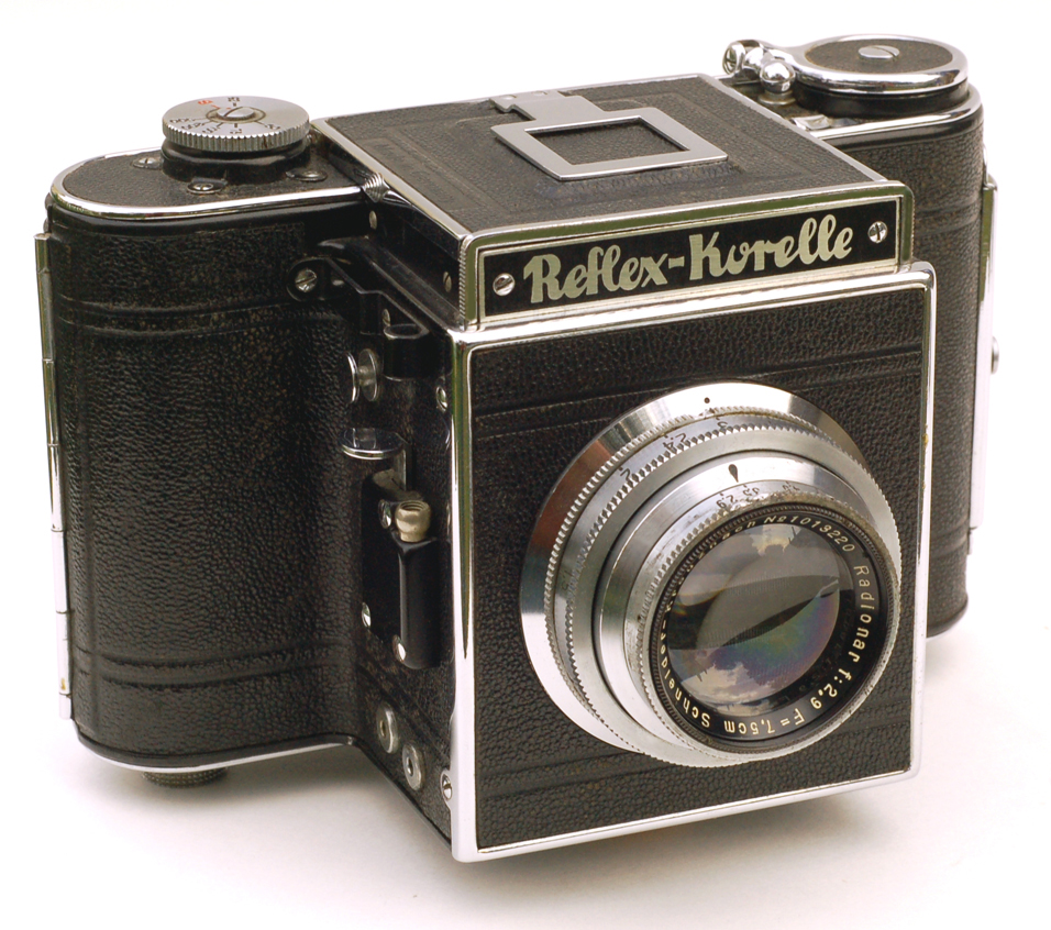 This gorgeous camera is the first model of the Reflex-Korelle, designed and produced in Germany by Franz Kochmann. Beginning production c1934-35, it was one of the earliest medium format SLRs (6x6cm exposures on 120 film). It features interchangeable screw-mount lenses, shutter speeds to 1/500, and apertures from f2.8 to f32. It also has a waist-level matte screen finder with a magnifier, as well as a folding frame finder. Reflex-Korelle cameras were imported and distributed in the USA by Burke & James of Chicago, and many examples say "Burke & James" beneath the Reflex-Korelle logo on the nameplate. Postwar models were called Meister-Korelle or Master Reflex (in the USA). This camera is just beautifully made, so don't be surprised if I post more pictures of it.